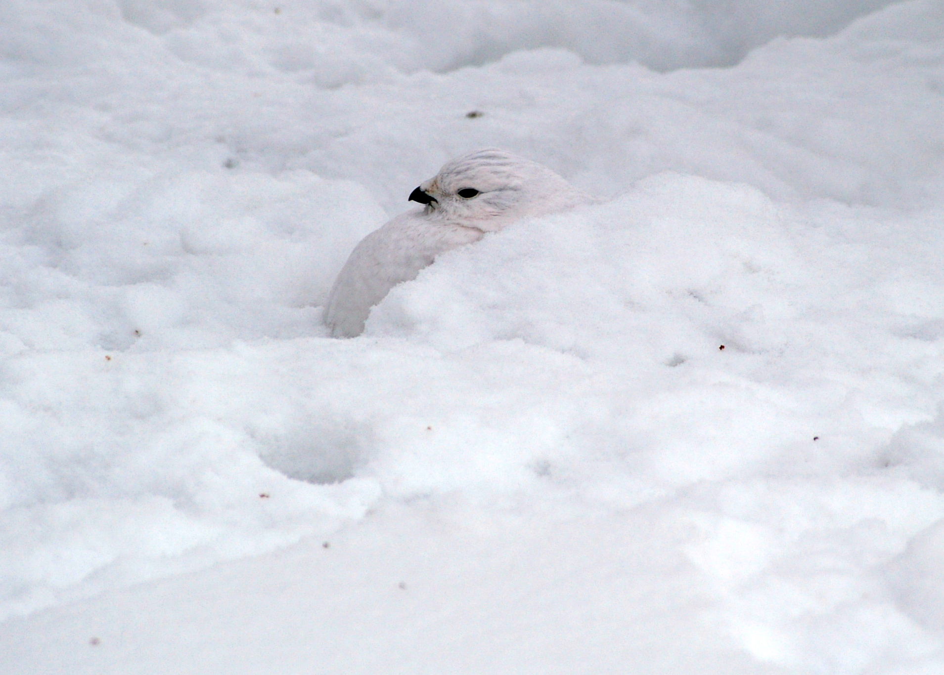 Willow Ptarmigan (Lagopus lagopus)